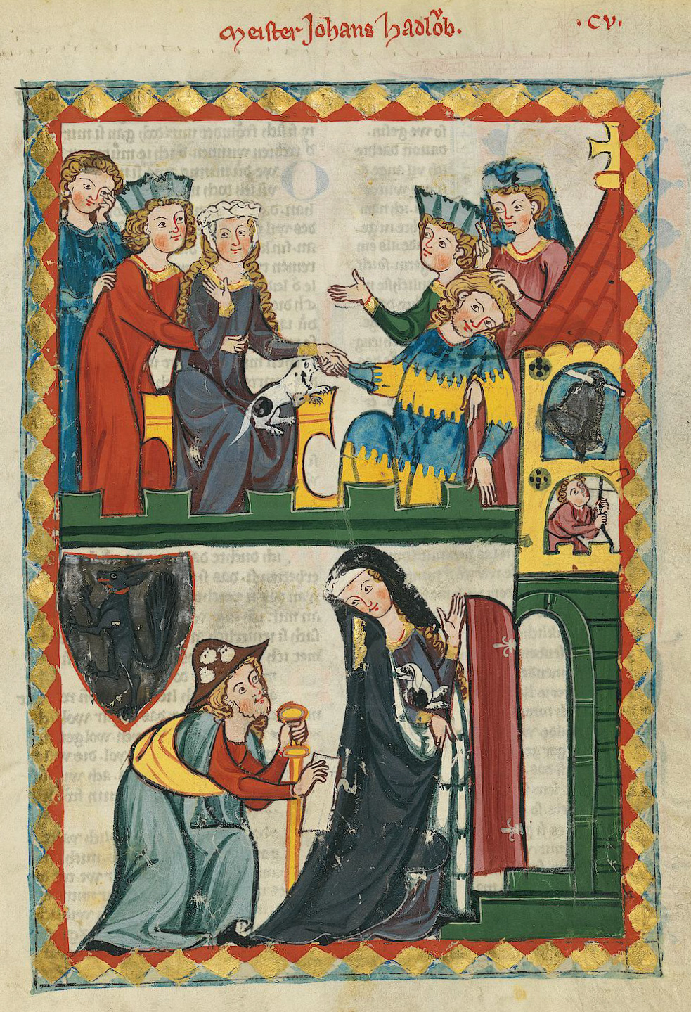 Codex Manesse, UB Heidelberg, Cod. Pal. germ. 848, fol. 371r, bottom panel shows Meister Johannes Hadlaub handing a Liederhandschrift to Elisabeth of Wetzikon